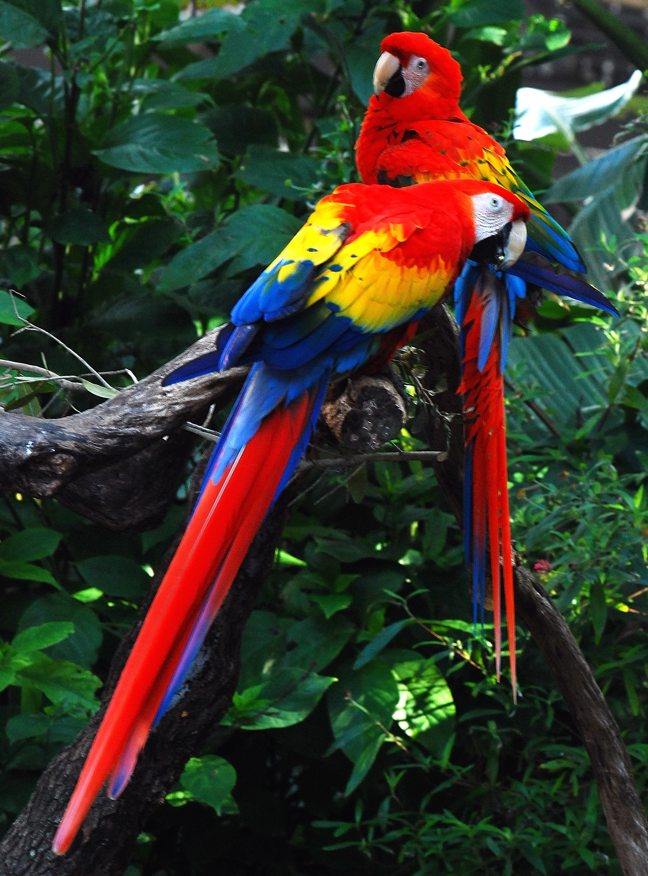 Scarlet Macaw (Ara macao). Two at Lowry Park Zoo, Tampa, Florida, USA.